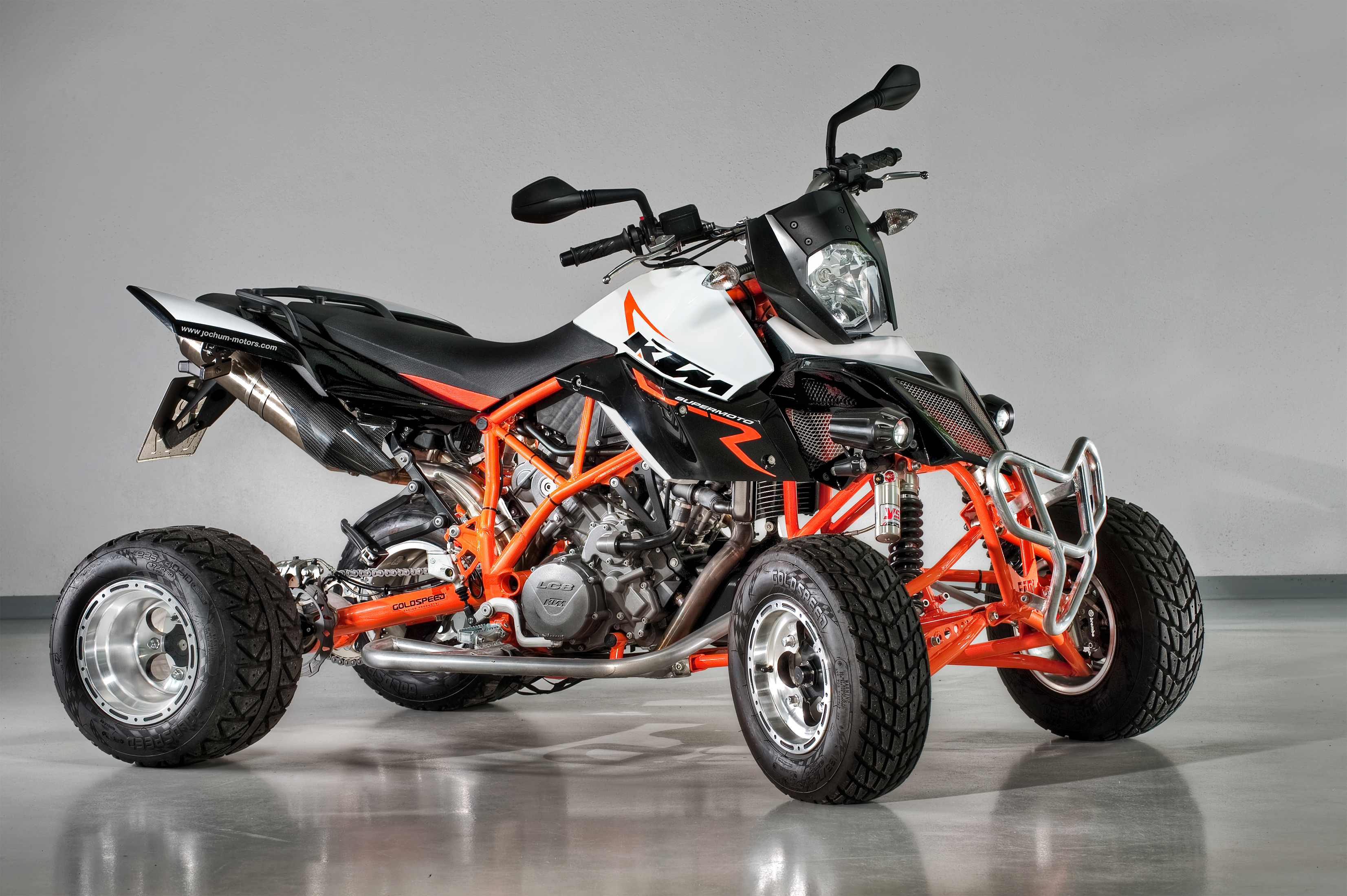 ATV custom-made from E-ATV Eicker Germany. Basevehicle was a KTM Supermotobike, Typ SM 990 with LC8 engine.